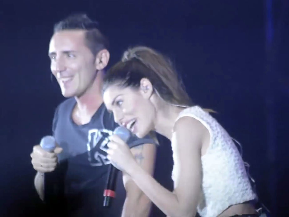 Italian singers Kekko Silvestre (Modà) and Bianca Atzei on November 2014, Cagliari.